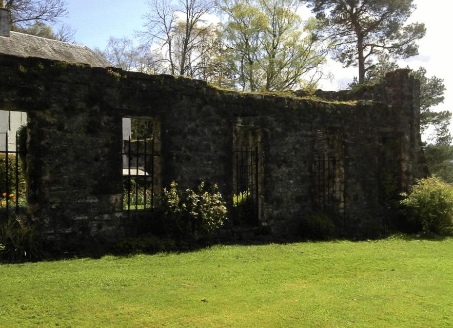 The exterior of the courtyard formed by the ruins of Buchanan Auld House, located in Stirlingshire, Scotland.